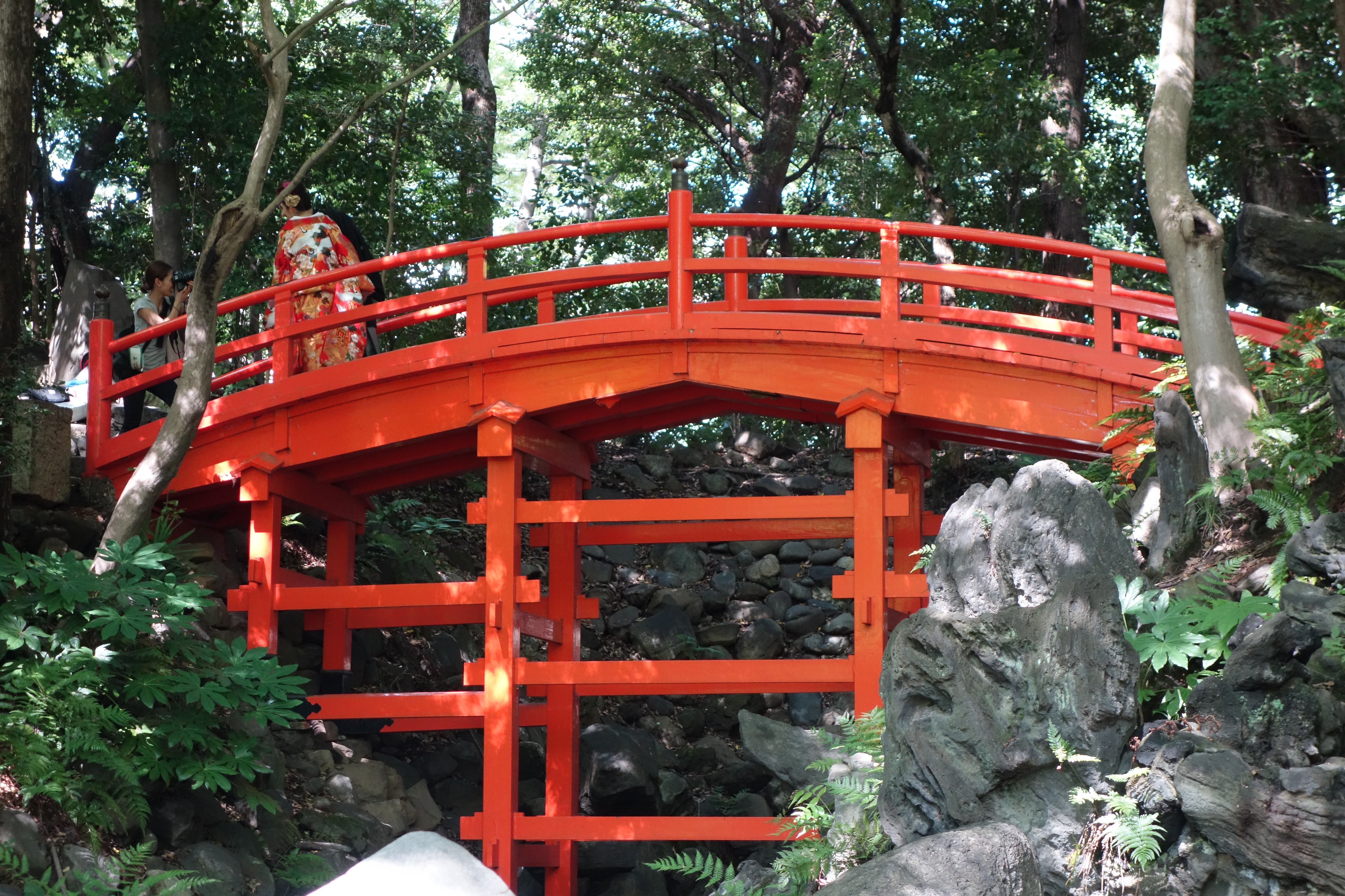 Koishikawa Korakuena, a Japanese garden in Bunkyō-ku, Tokyo, Japan.